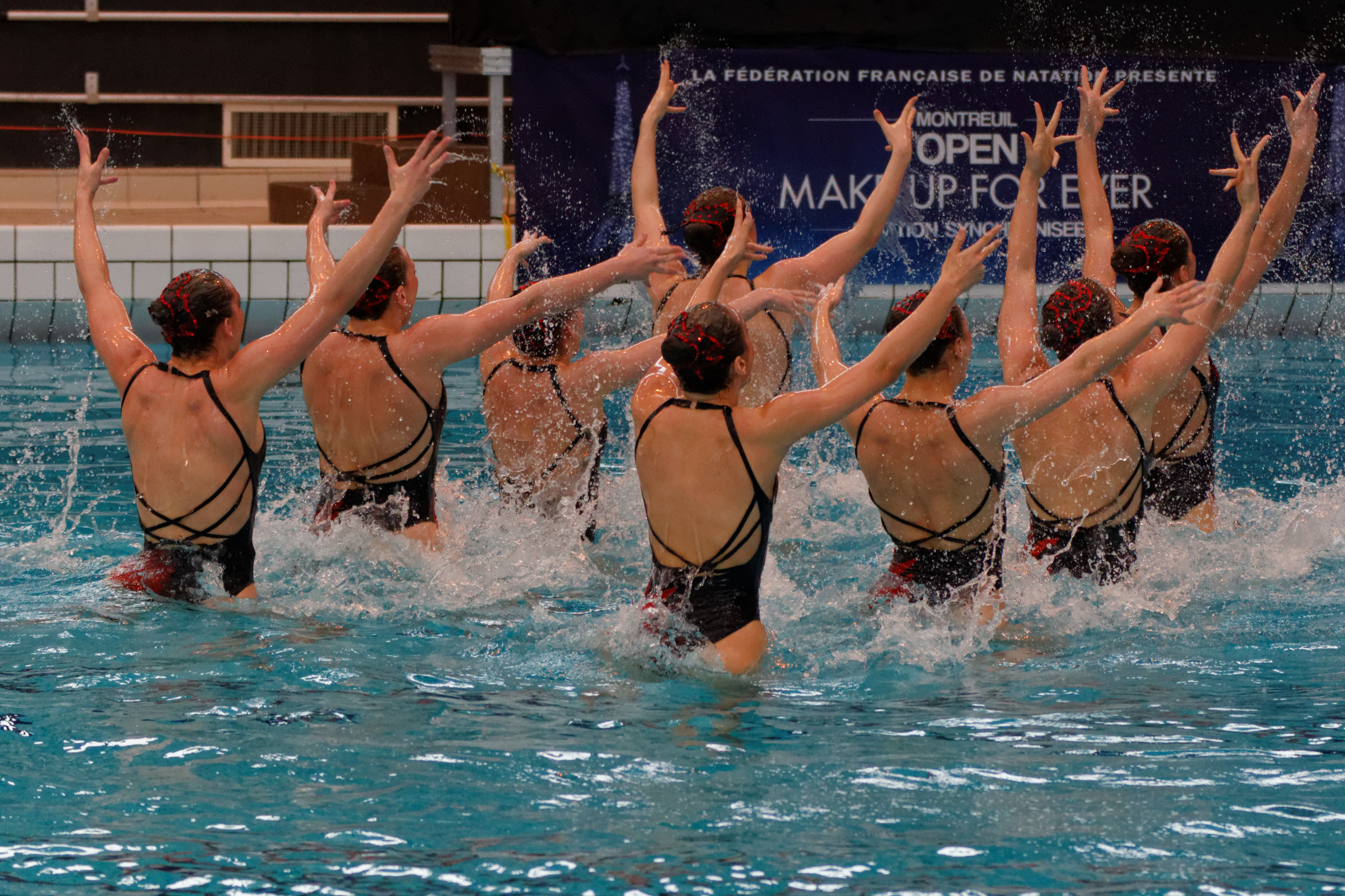 France, team technical routine, Open Make Up For Ever.